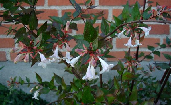 Abelia x grandiflora: Flowers and leaves.